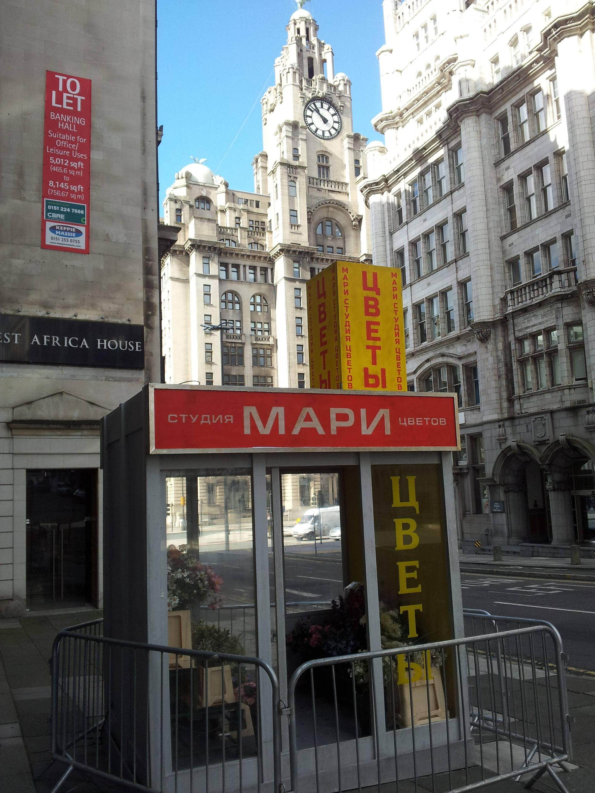 Filming for the 2014 film Jack Ryan outside the Royal Liver Building in Liverpool, UK